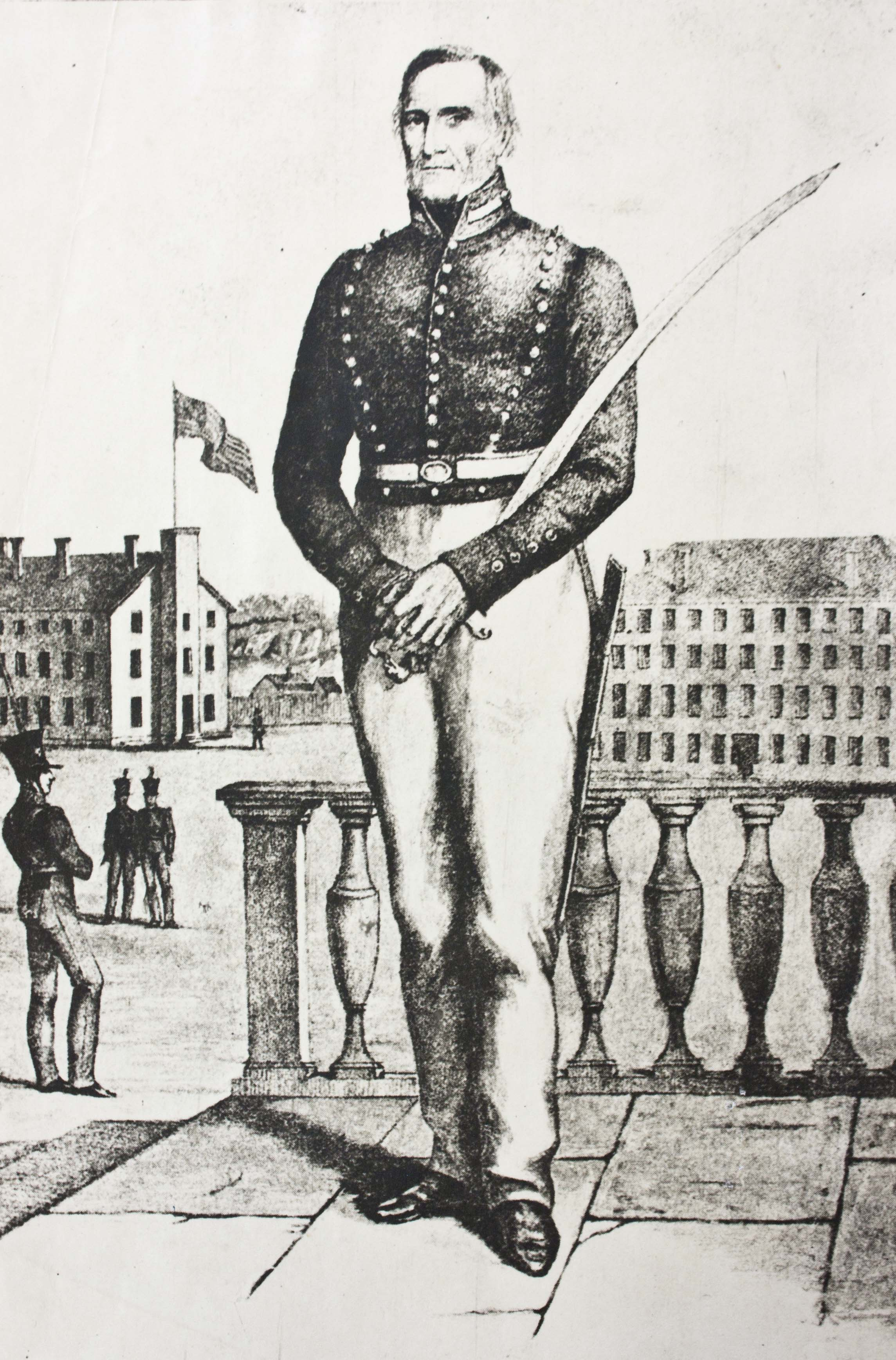 Partridge shown with cadets in background and military academy buildings.